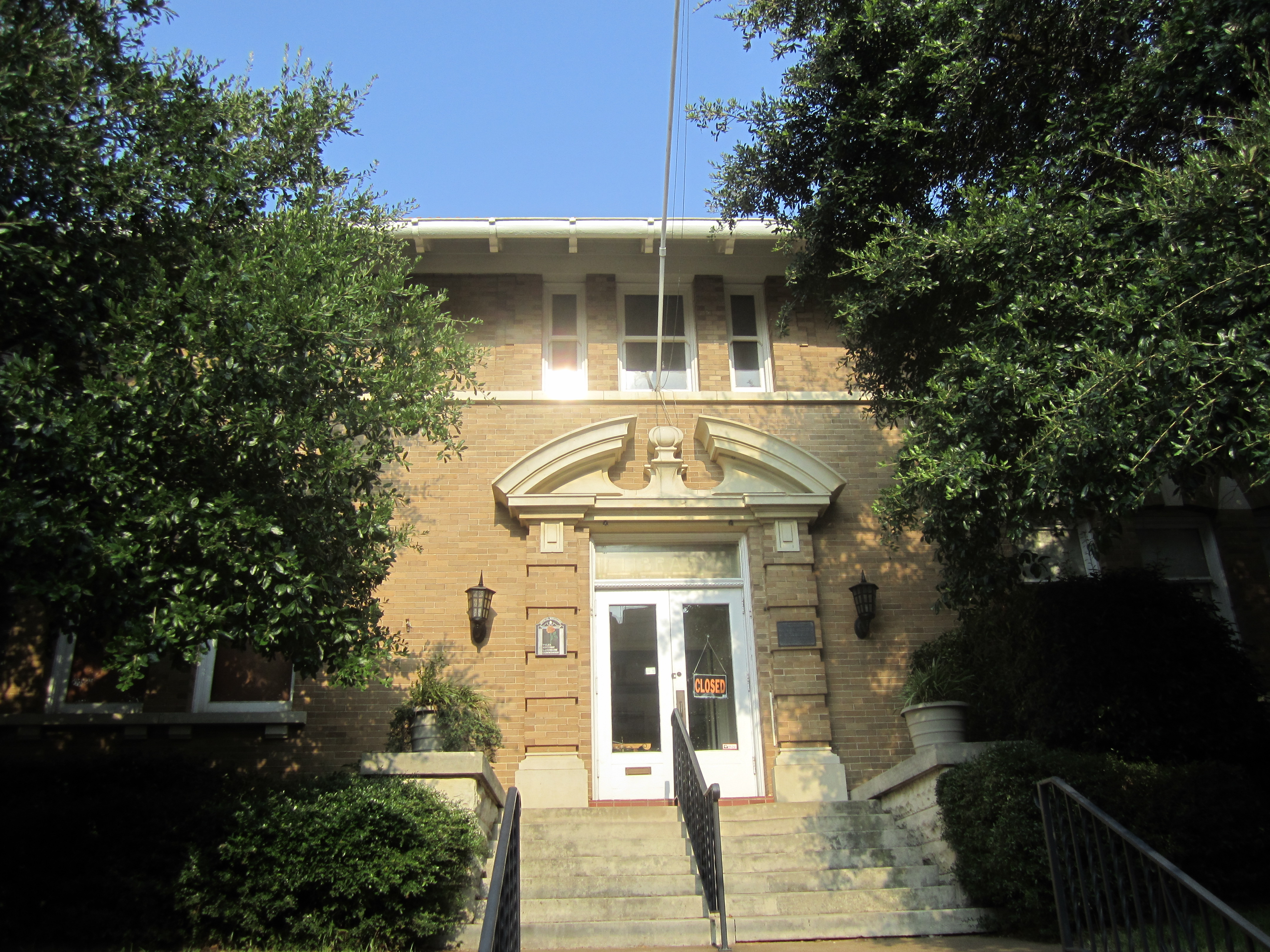 I took photo with Canon camera in Tyler, TX.